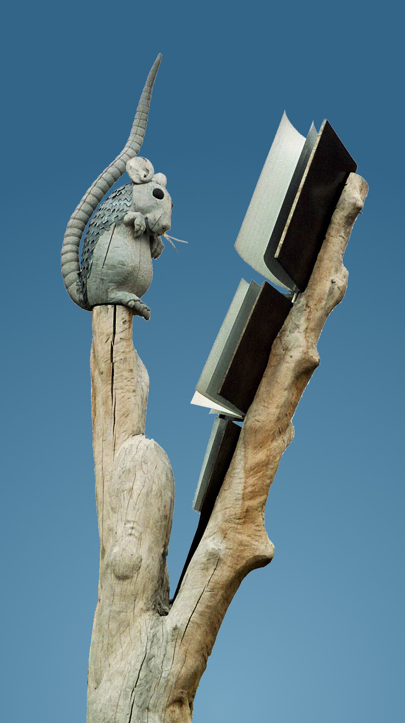 Leseratte (the German word for bookworm, literally reading rat), a sculpture at Neumarkt in Steiermark, Styria.